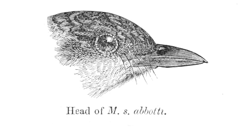 Head of Malacocincla abbotti